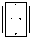 Possible deformation of a volume element of an incompressible fluid, in two dimensions